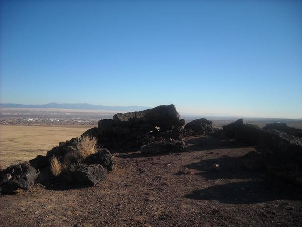 Roughly 2/3 of the way up the north-to-south trail leading to the summit of JA Volcano. Albuquerque can be seen in the distance in this photo taken looking east/southeast.